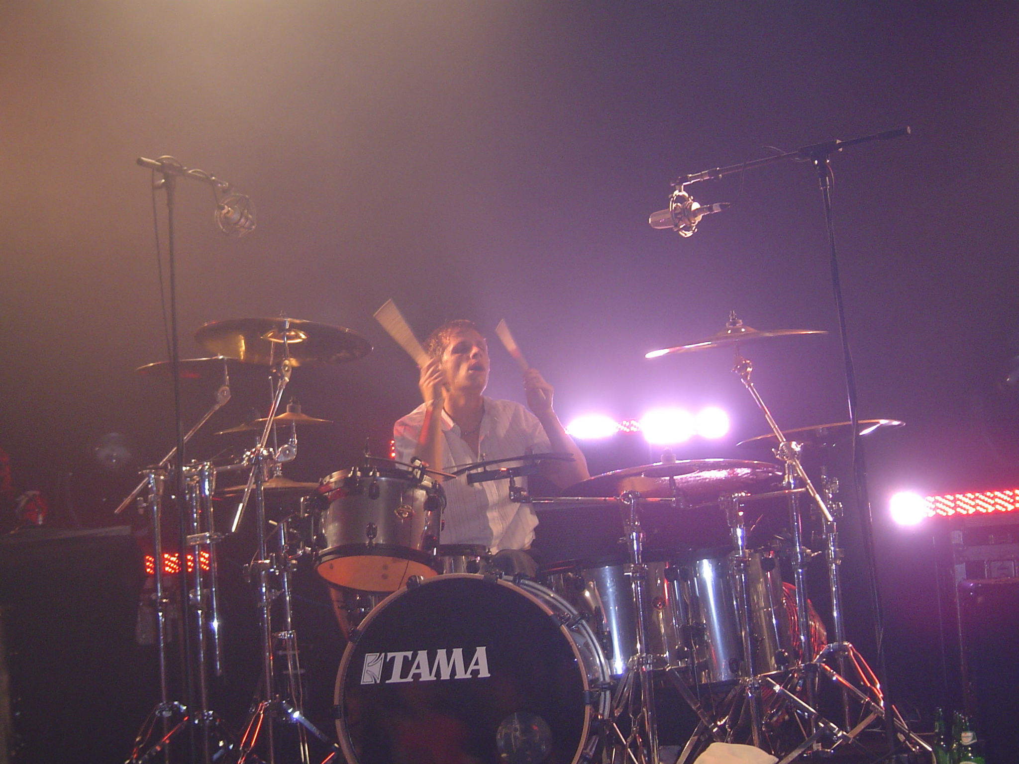 self-taken photo Mod Club Theatre, Toronto April 2004